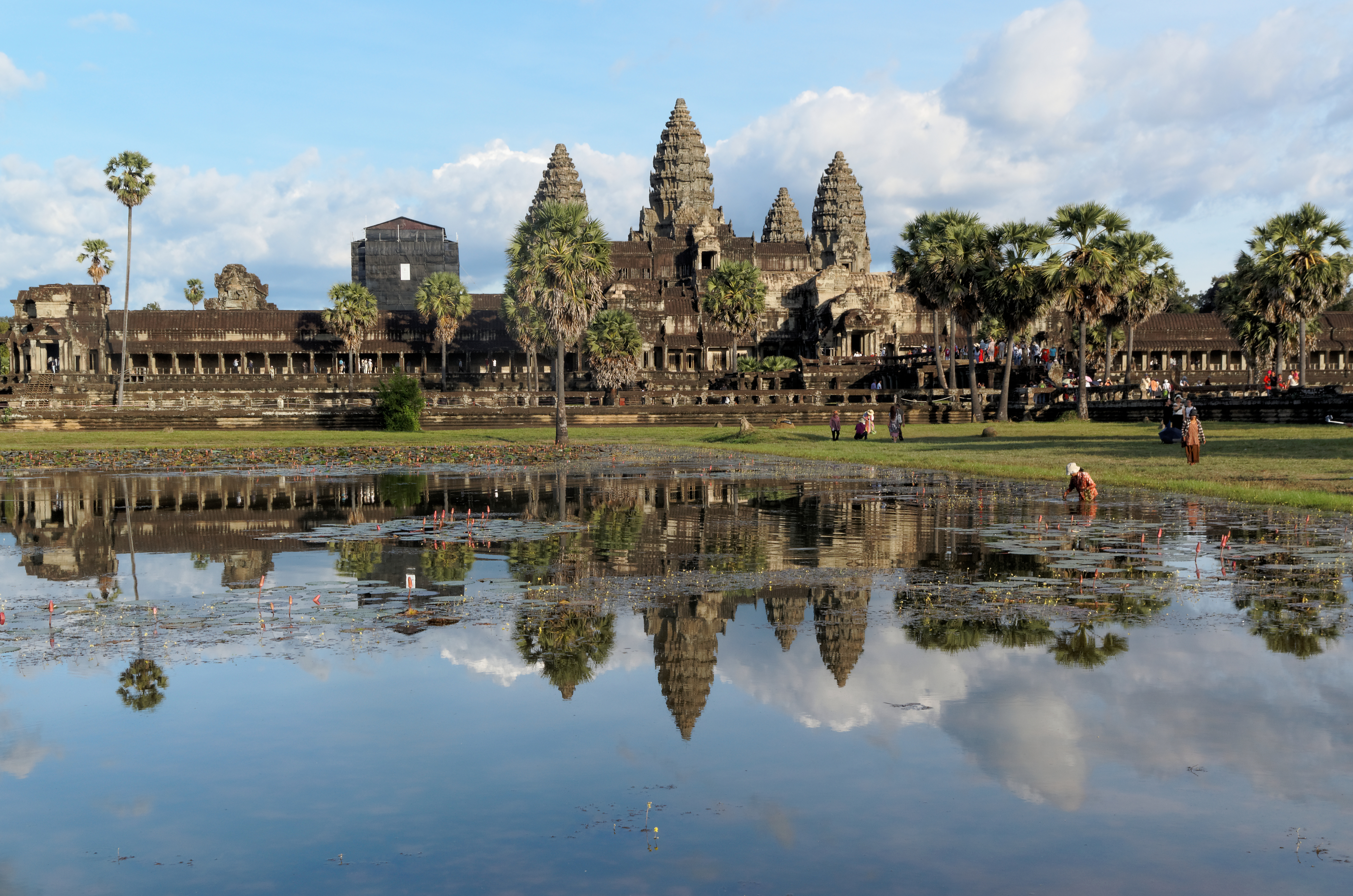 View of the central structure of Angkor Wat